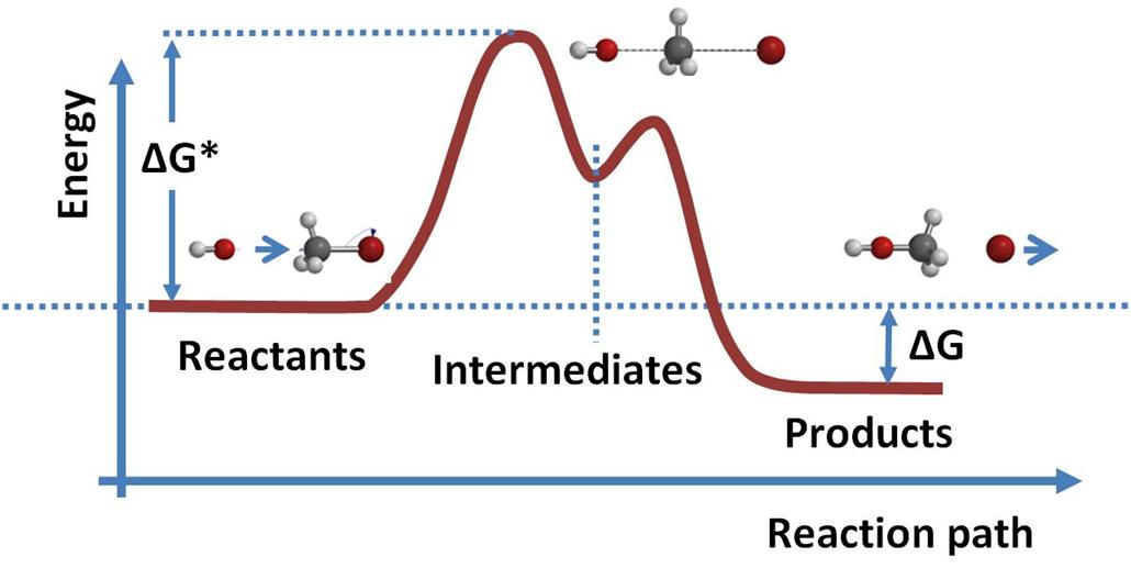 Chemical reaction path showing intermediate state; compare with Bergmann, Wilhelm & Schaefer